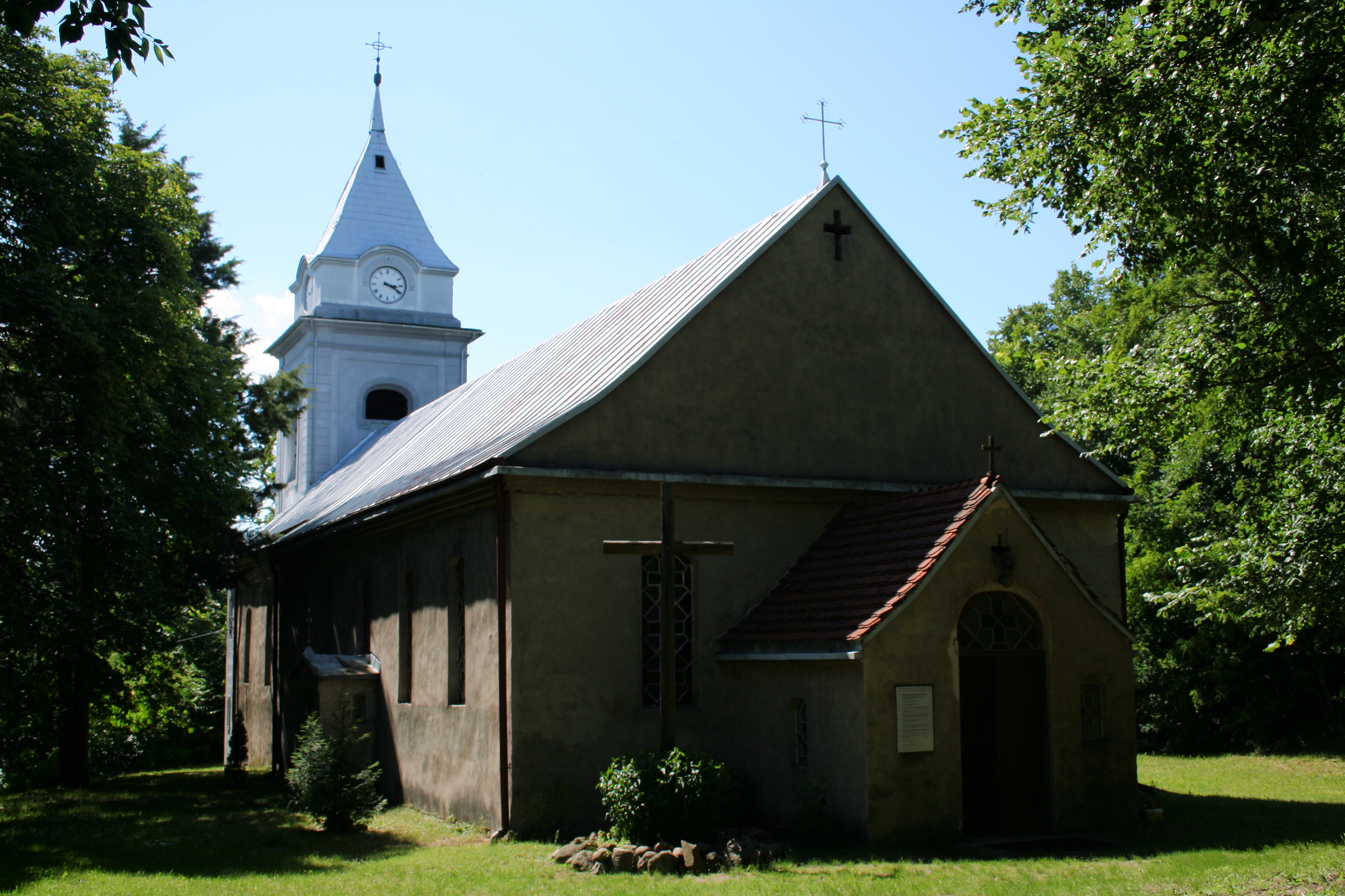 The Church of the Blessed Virgin Mary's Immaculate Conception in Gozdowice